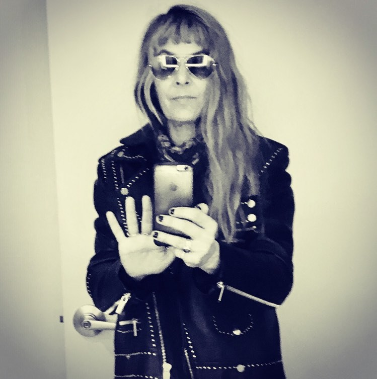 Amanda Kramer: Self Portrait